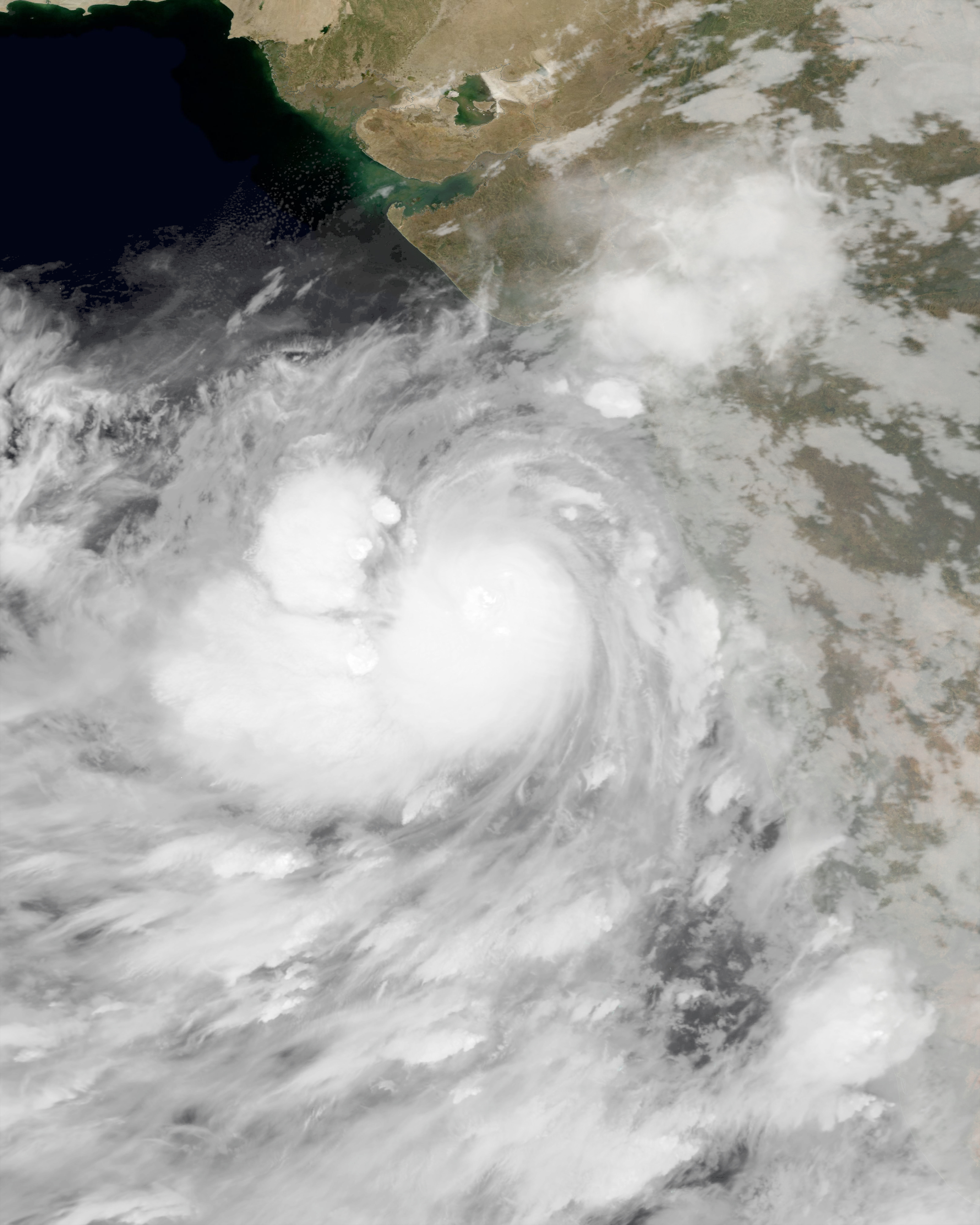 Very Severe Cyclonic Storm Vayu on June 11, 2019.